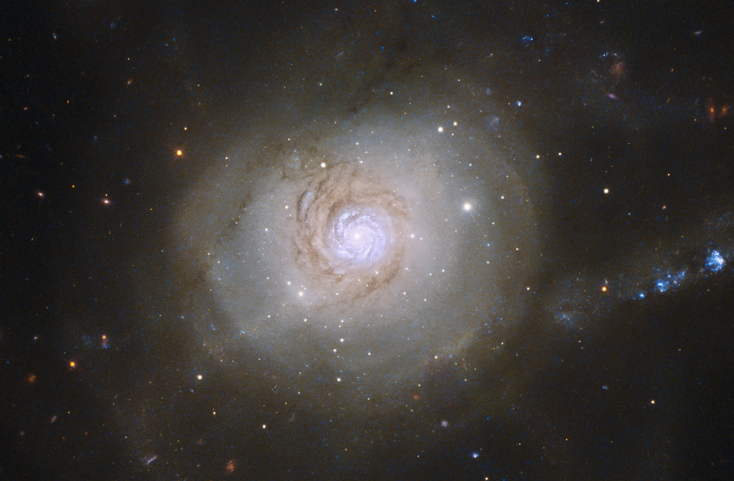 The stunning Atoms for Peace galaxy was given its nickname due to its superficial resemblance to an atomic nucleus, surrounded by the loops of orbiting electrons. “Atoms for Peace” was the title of a speech given by President Eisenhower in 1953, in an attempt to rebrand nuclear power as a tool for working toward global peace. Somewhat ironically this galaxy has had anything but a peaceful past — it was formed in a catastrophic merger between two smaller galaxies nearly 1 Gyr ago.